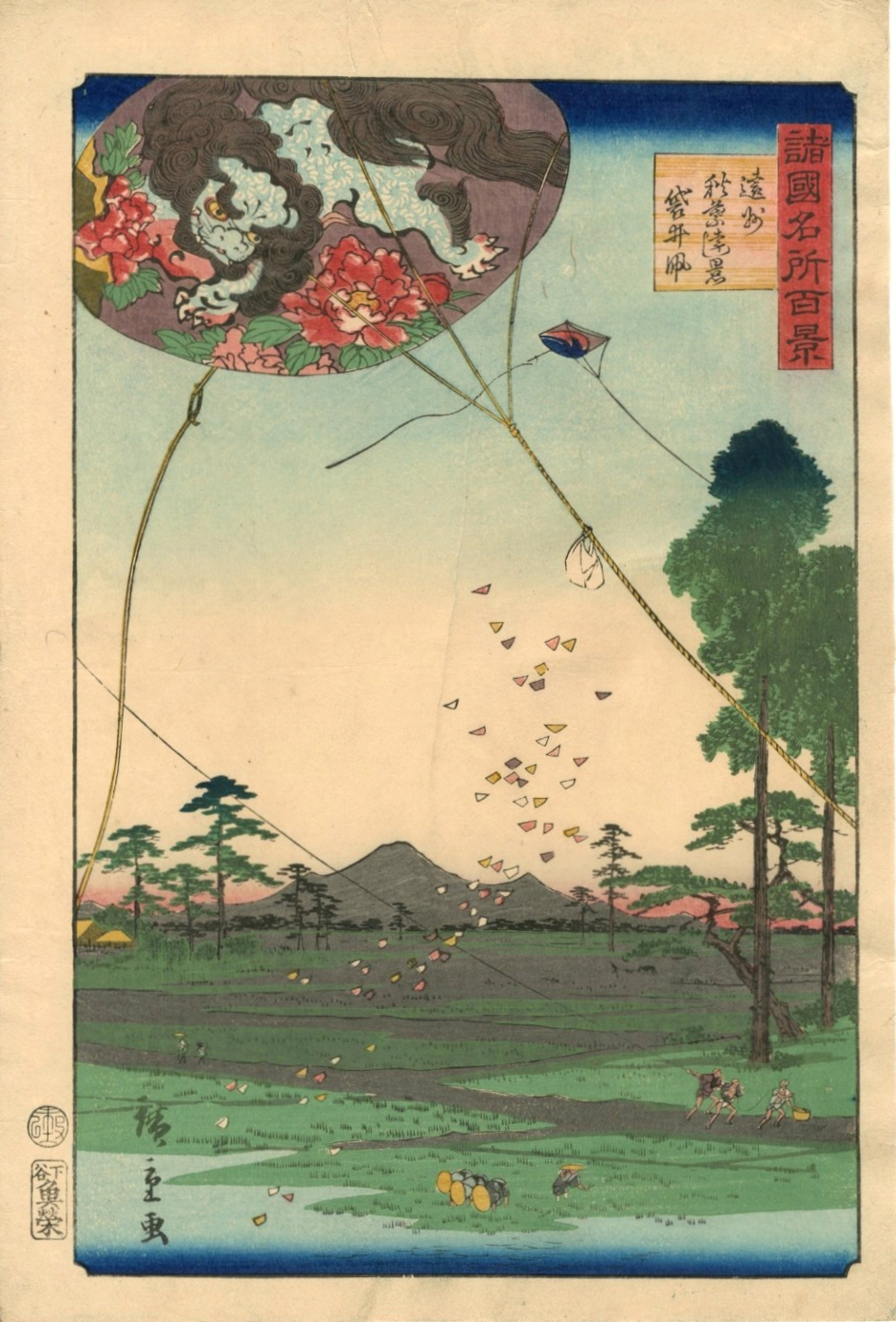 Enshū Akiha Enkei Fukuroi Tako of 100 Views of the Provinces.